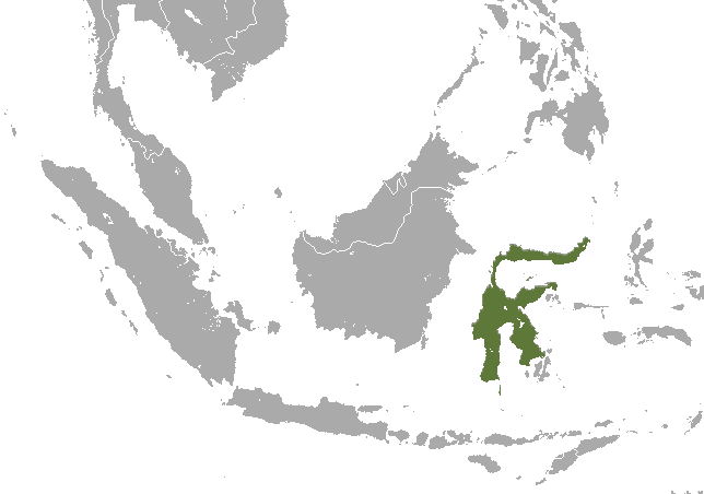 Sulawesi Stripe-faced Fruit Bat (Styloctenium wallacei) range